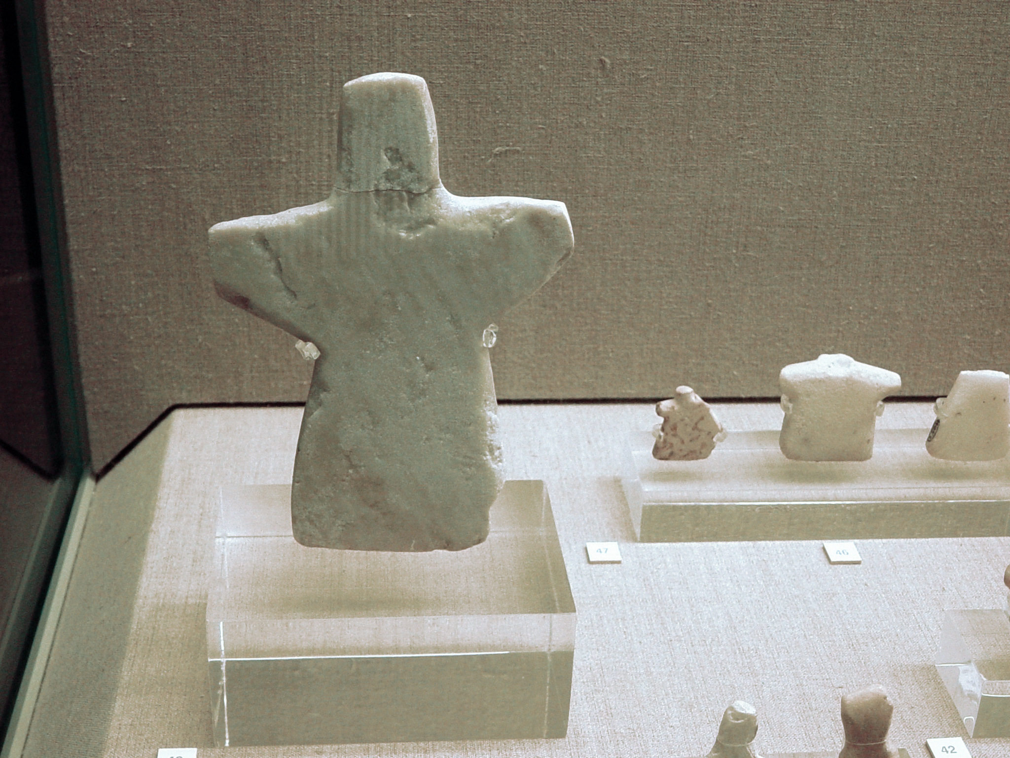 Marble sculpture, Museum of Cycladic Culture, Akrotiri excavation artifacts, Santorini, Cyclides, Hellas (Greece)